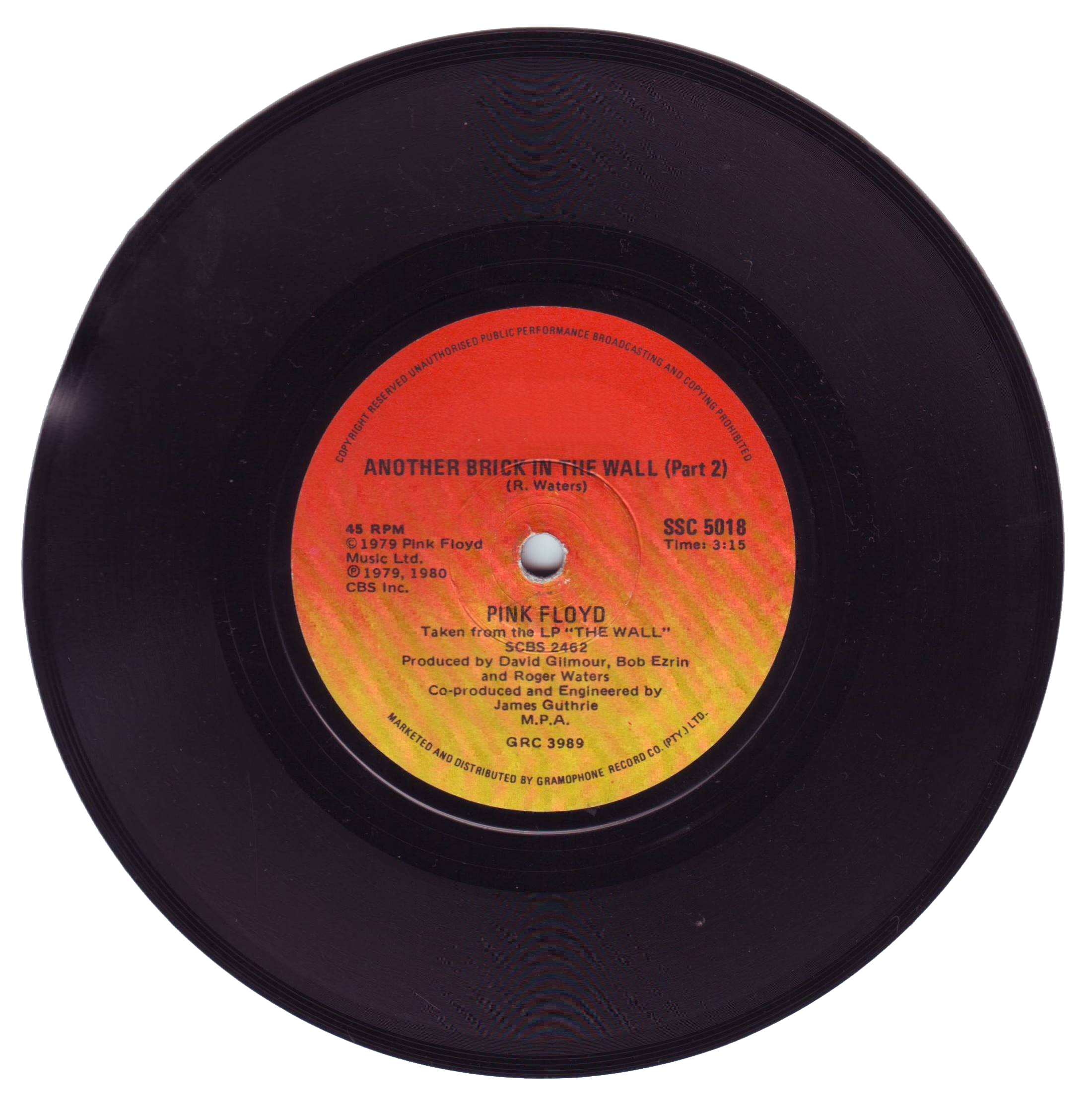 Simple of "Another brick in the wall"